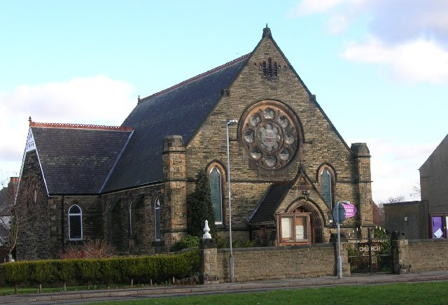 Mosborough Methodist Church near Sheffield.